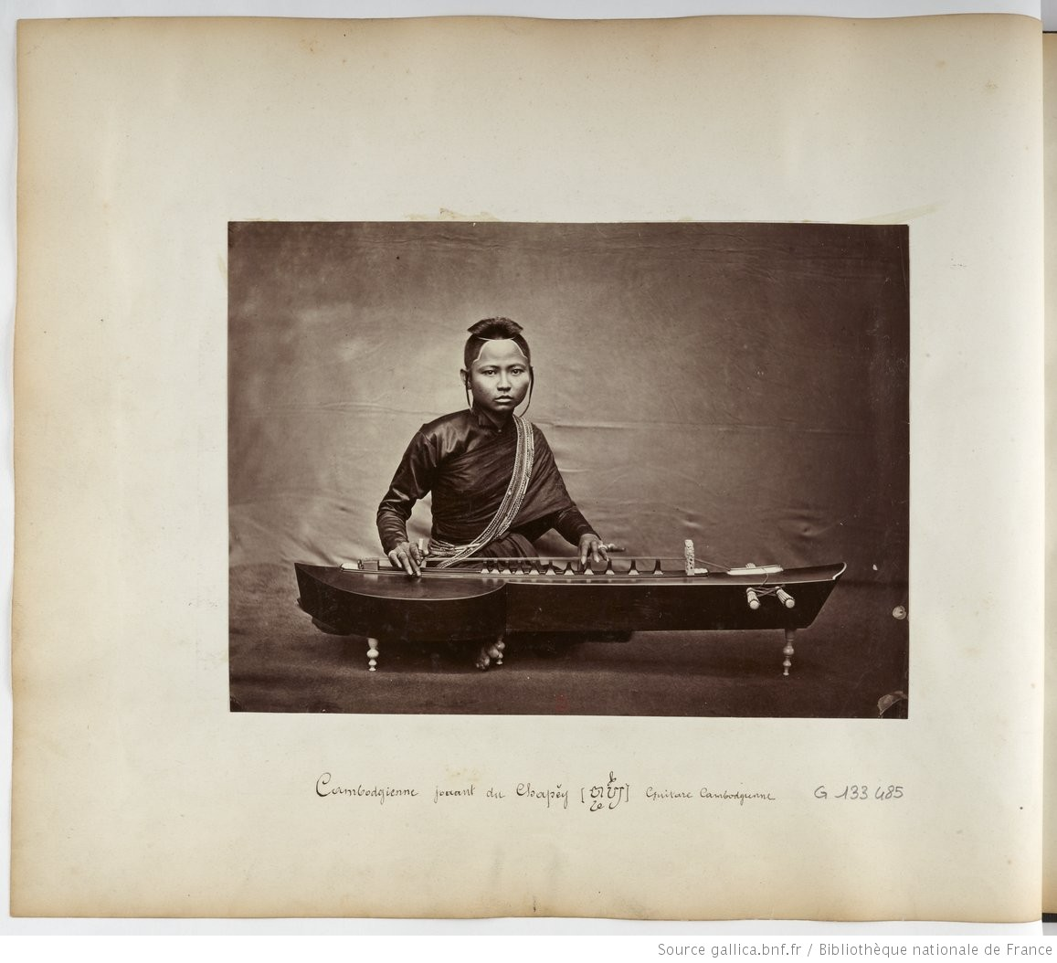 Portrait of a female musician with a krapeu at the Cambodian Royal Palace, 1880. Photo by Émile Gsell (1838-1879). Labeled Chapey in the book "Voyage de l'Égypte à l'Indochine", however the Chapey is a different instrument, .